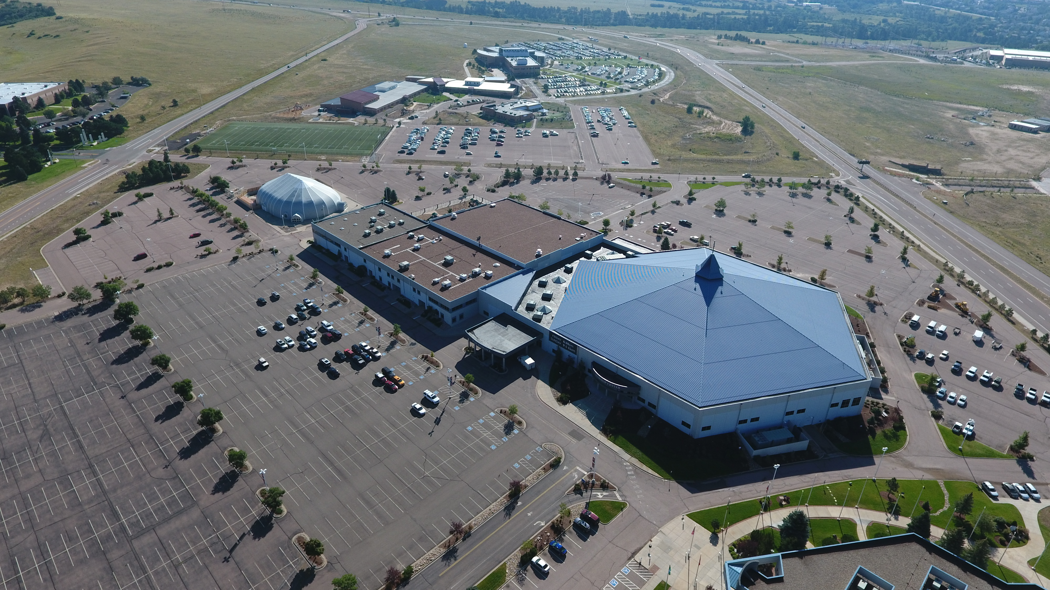 The campus of New Life Church in Colorado Springs, CO